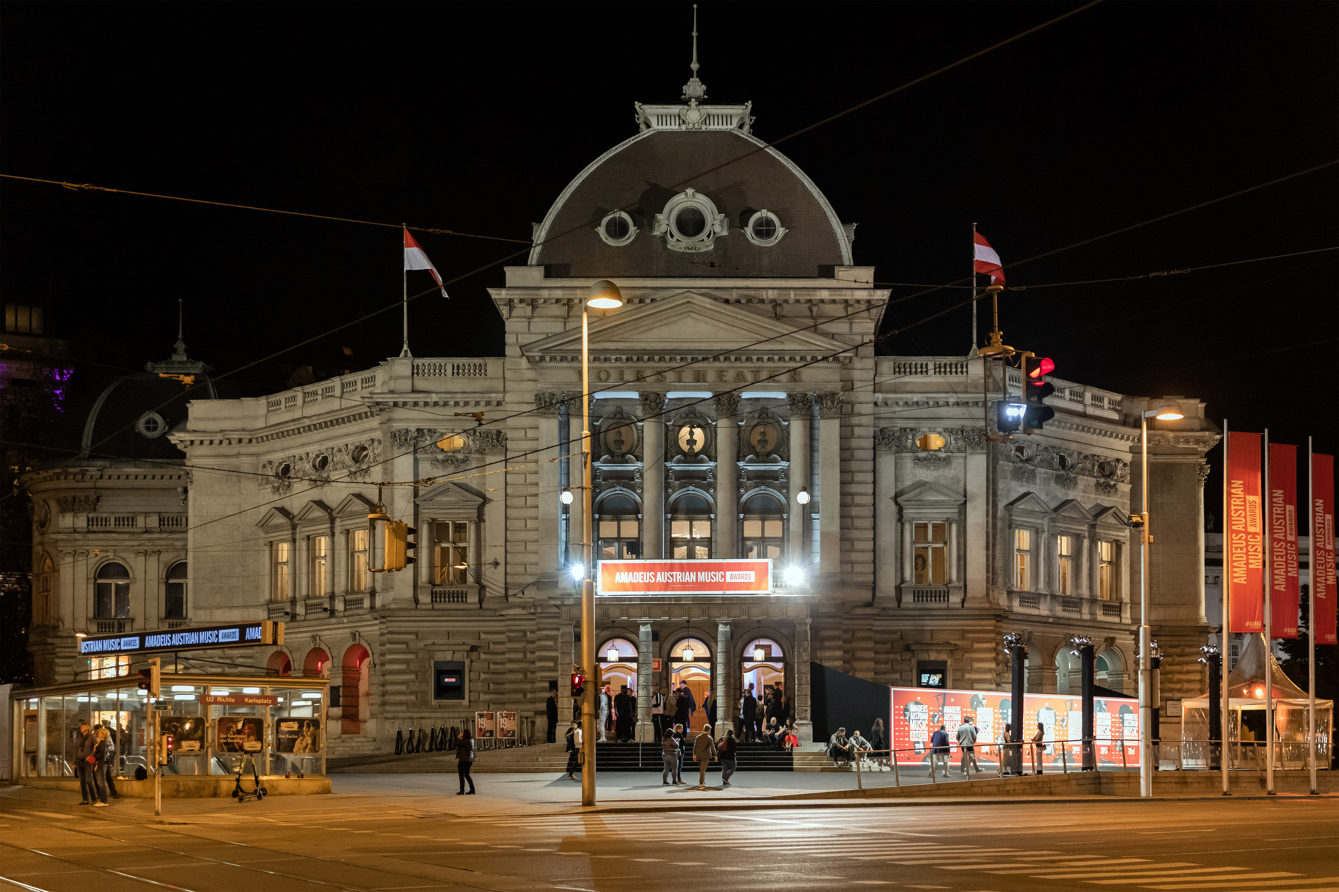 Amadeus Austrian Music Award 2019 at Volkstheater in Vienna.